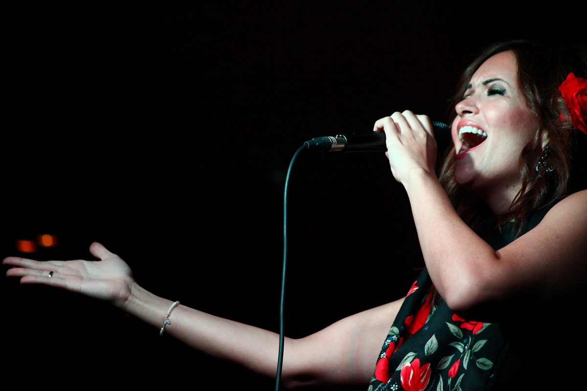 Farah Siraj performing live at Windmill Craftworks, Bangalore with all visiting international faculty at the Swarnabhoomi Academy of Music, Tamil Nadu.